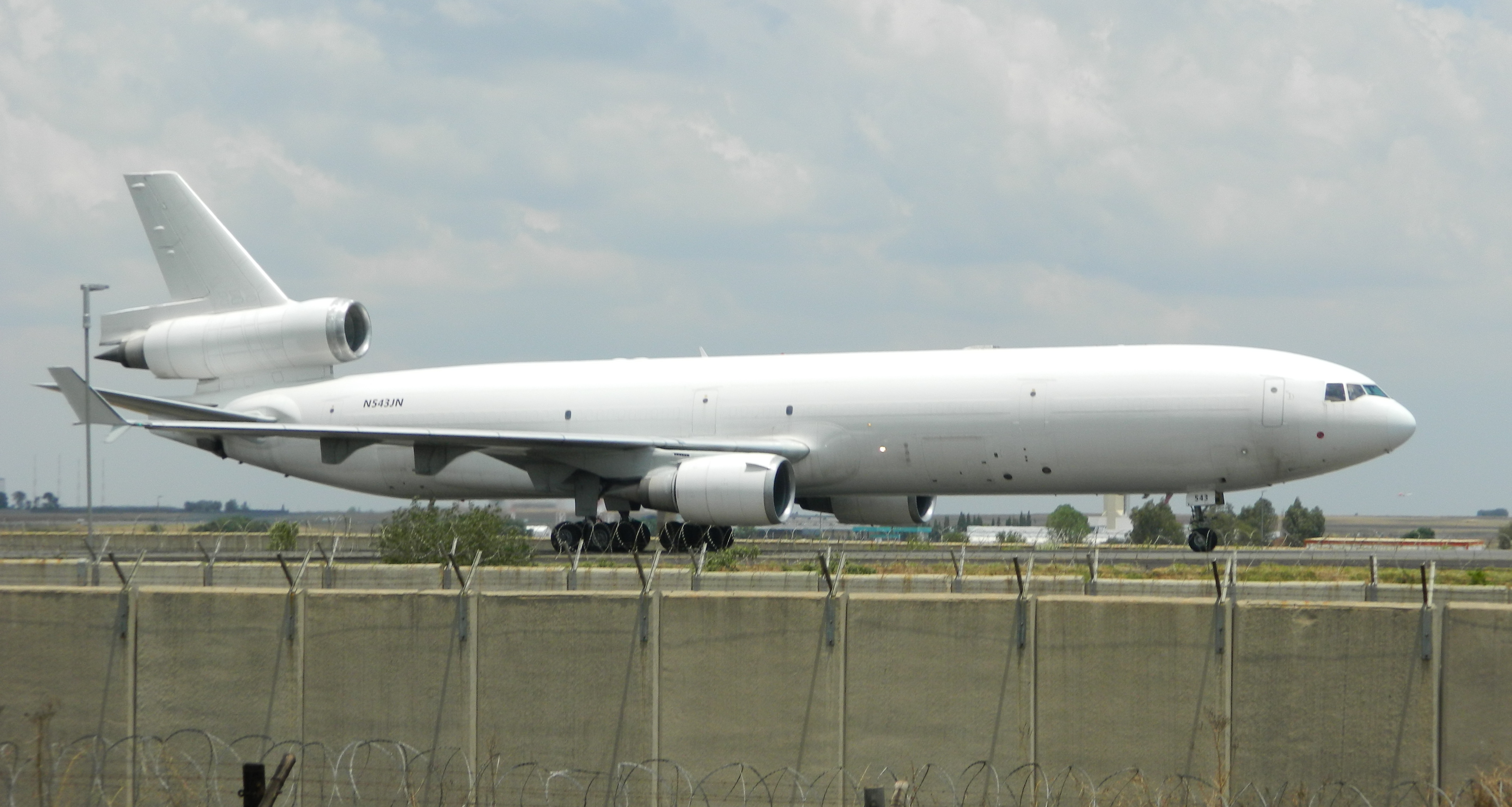 Photo: D.Gallop